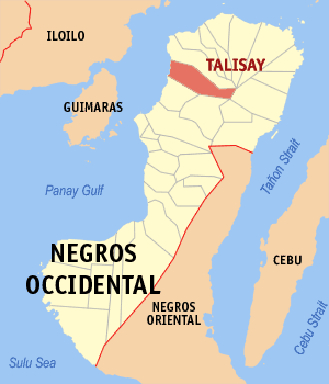 Map of Negros Occidental showing the location of Talisay